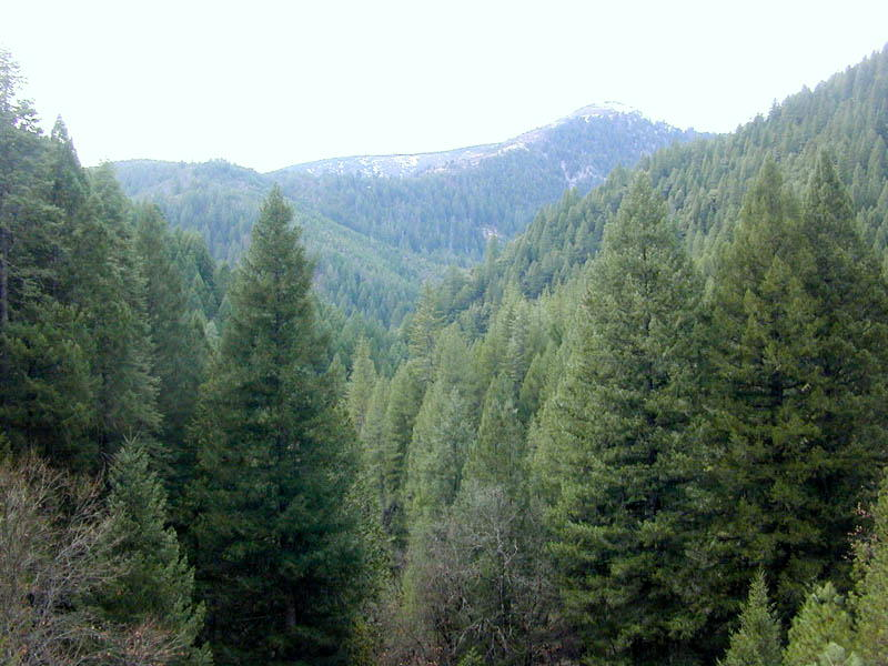 Conifer forest, Sierra National Forest, near Downieville, California.